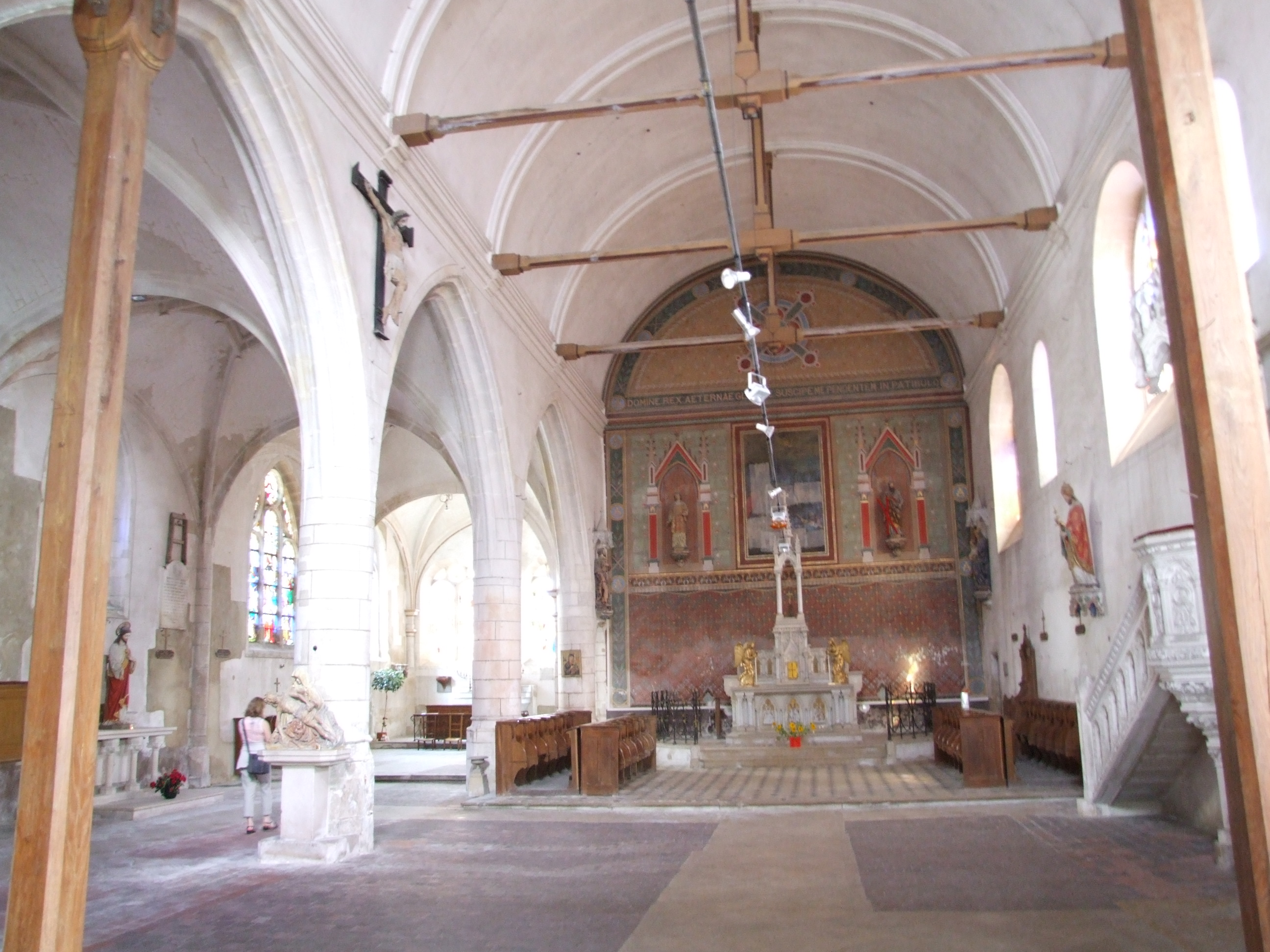 Joigny, Yonne, Burgundy, FRANCE